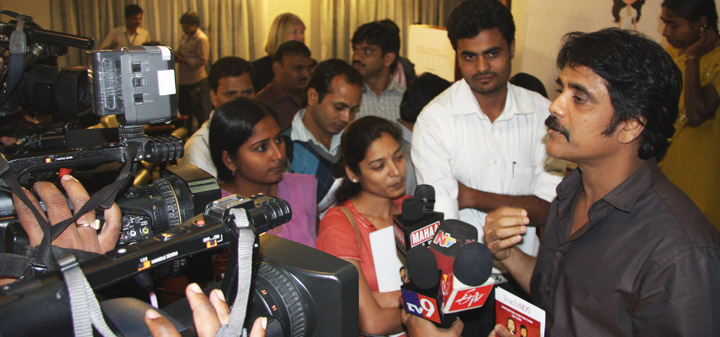 Nagarjuna at the TeachAIDS launch event in Hyderabad, India